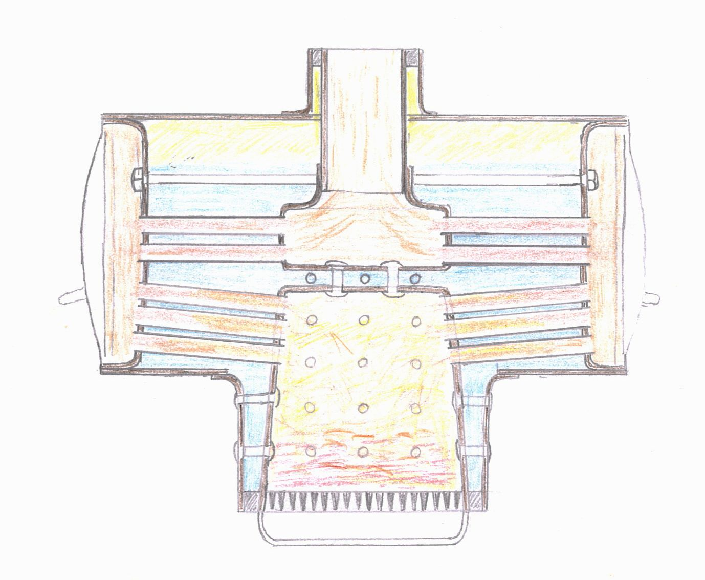 Crossways section of the transverse boiler of a Yorkshire Patent steam wagon.